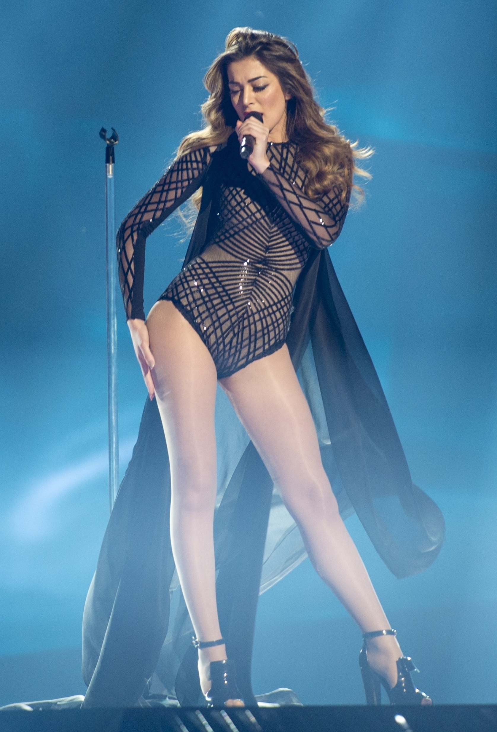 Iveta Mukuchyan representing Armenia with the song "LoveWave" during a rehearsal before the first semi final of the Eurovision Song Contest 2016 in Stockholm. (Help translate this text)